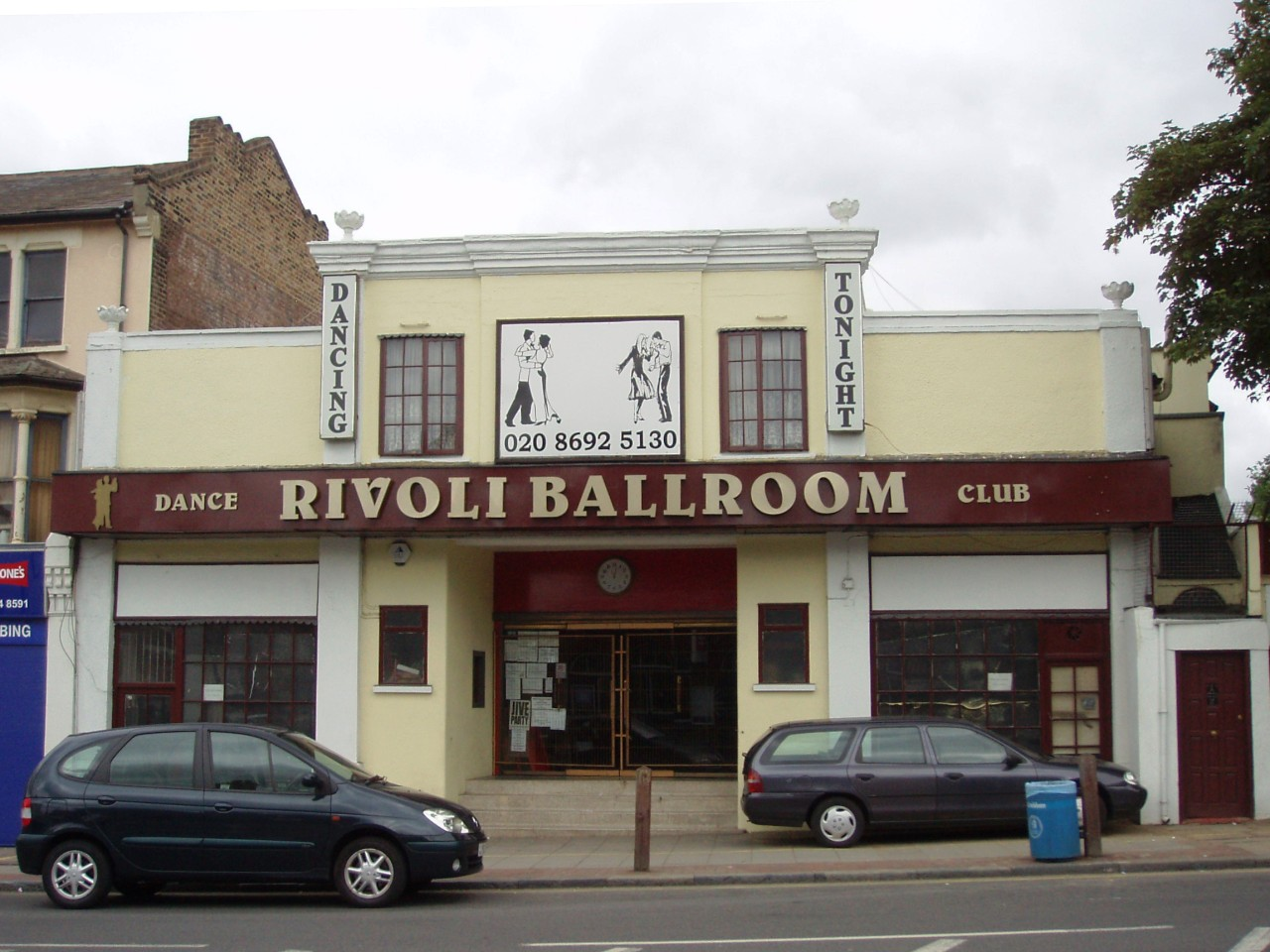 An old music hall, now used for ballroom dancing, and occasionally as a live music venue. Address: 350 Brockley Road.